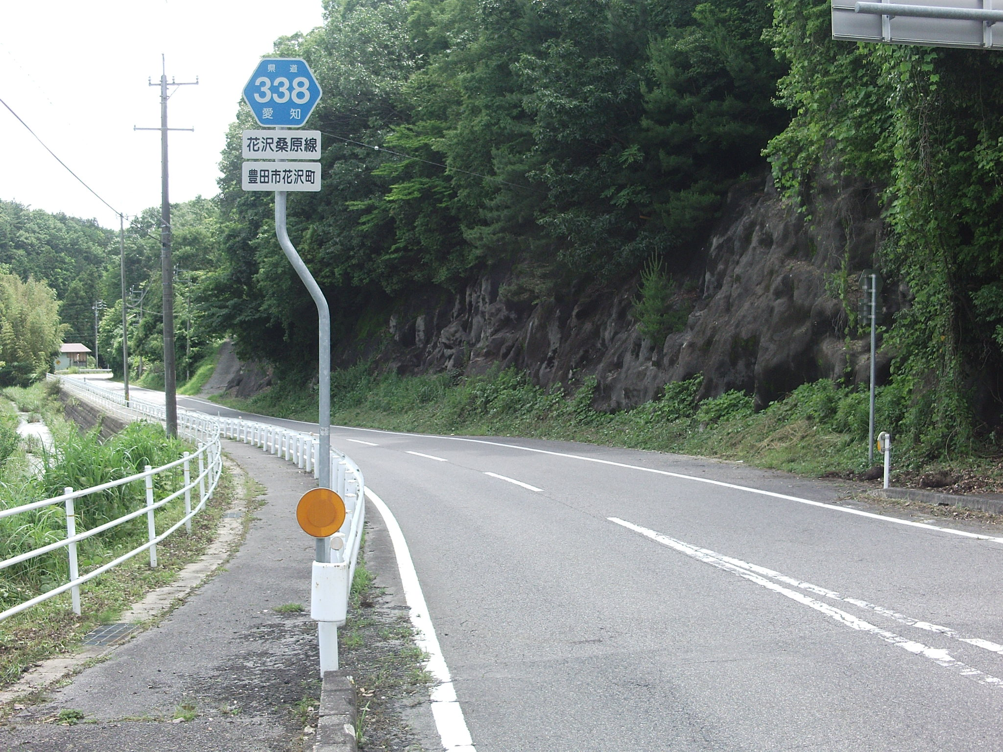 Aichi prefectural road No.338 in Hanazawacho, Toyota, Aichi.